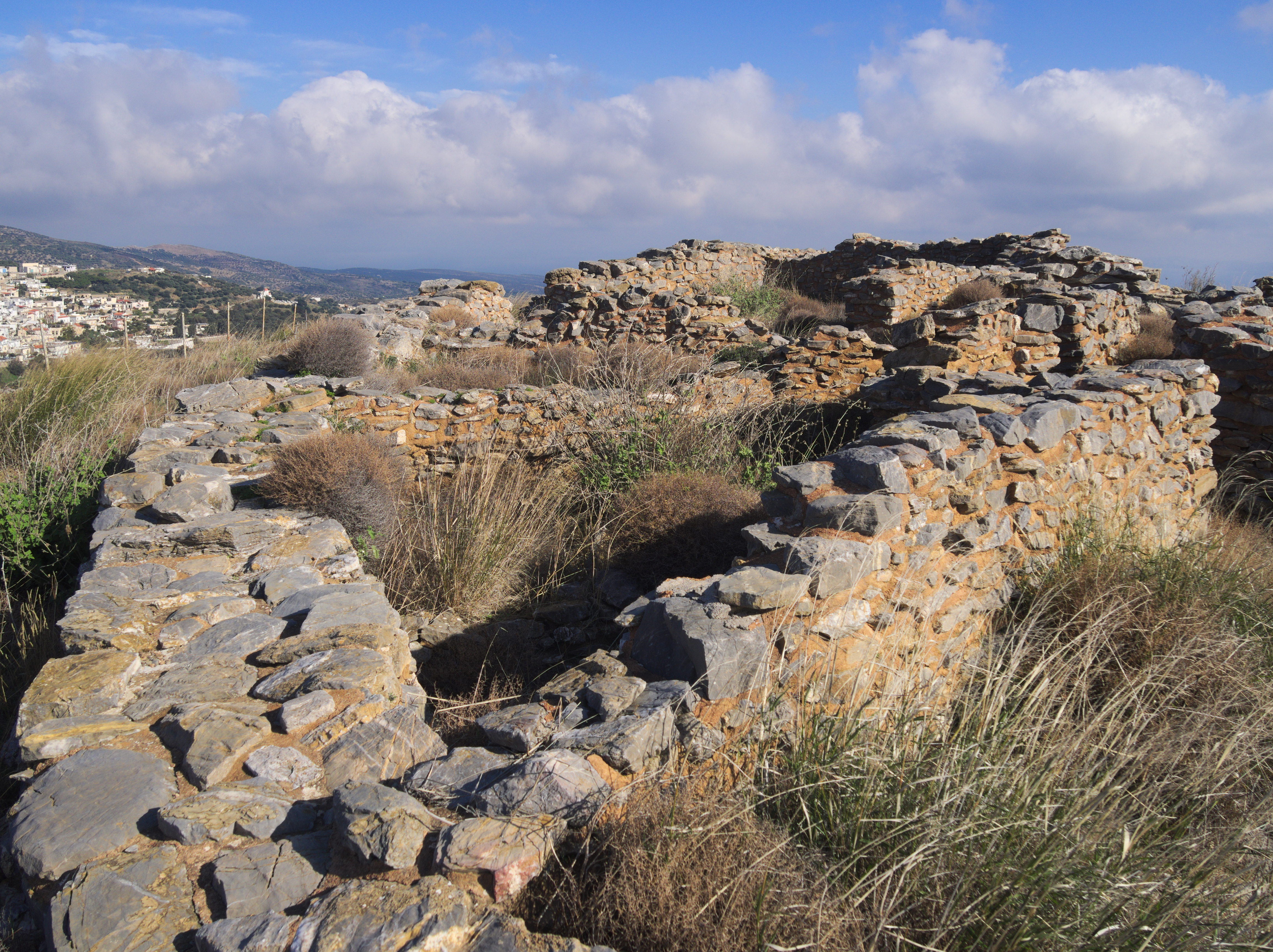 Minoan house of Chamezi, the west rooms and the northwest wall, that is curved.